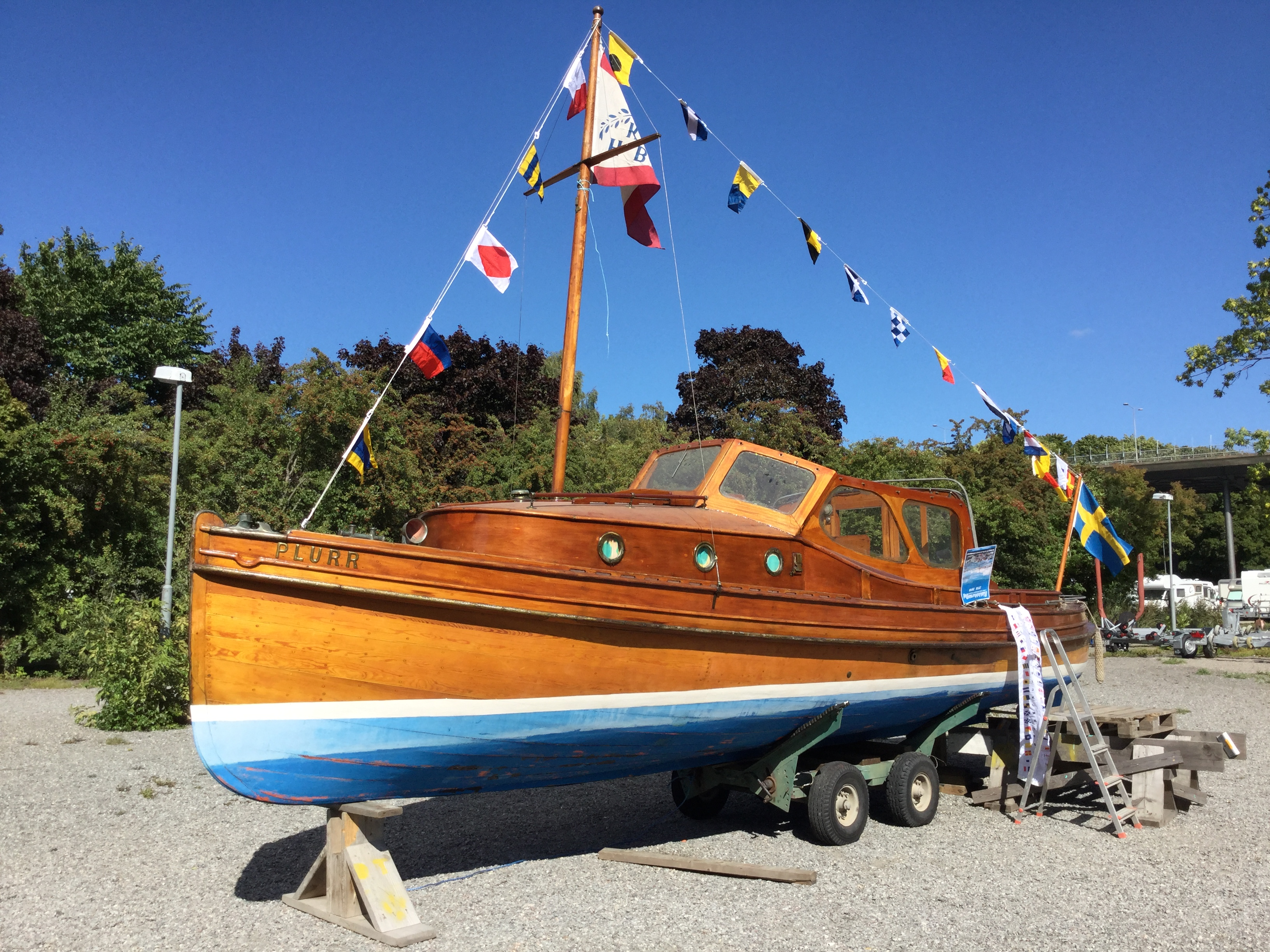 A boat of the type popularized by Carl Gustaf Pettersson, taken in Stockholm on 27 August 2016.